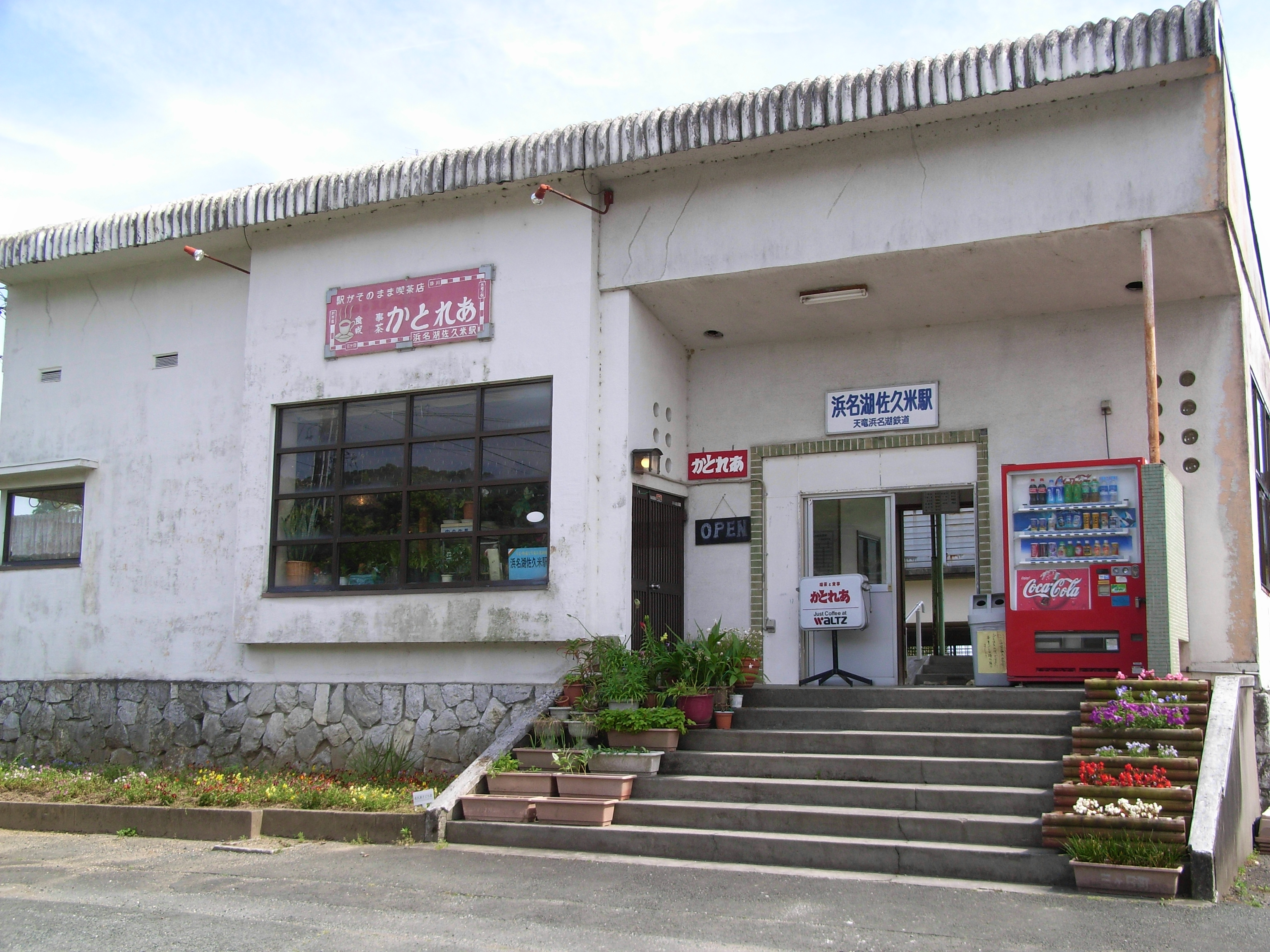 Hamanako Sakume Station